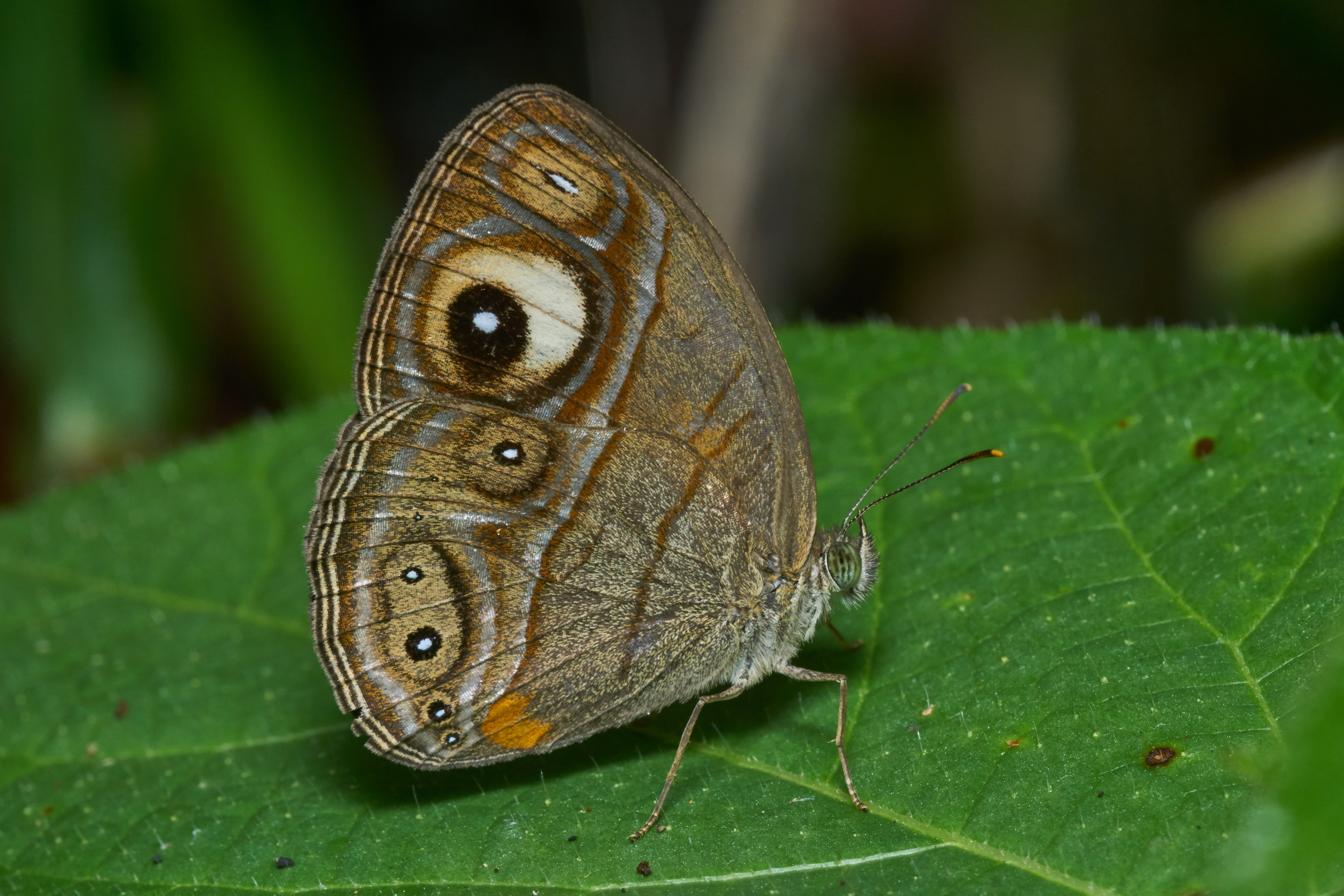 Mycalesis junonia, Malabar Glad-eye Bushbrown, is a species of Satyrinae butterfly found in South India.